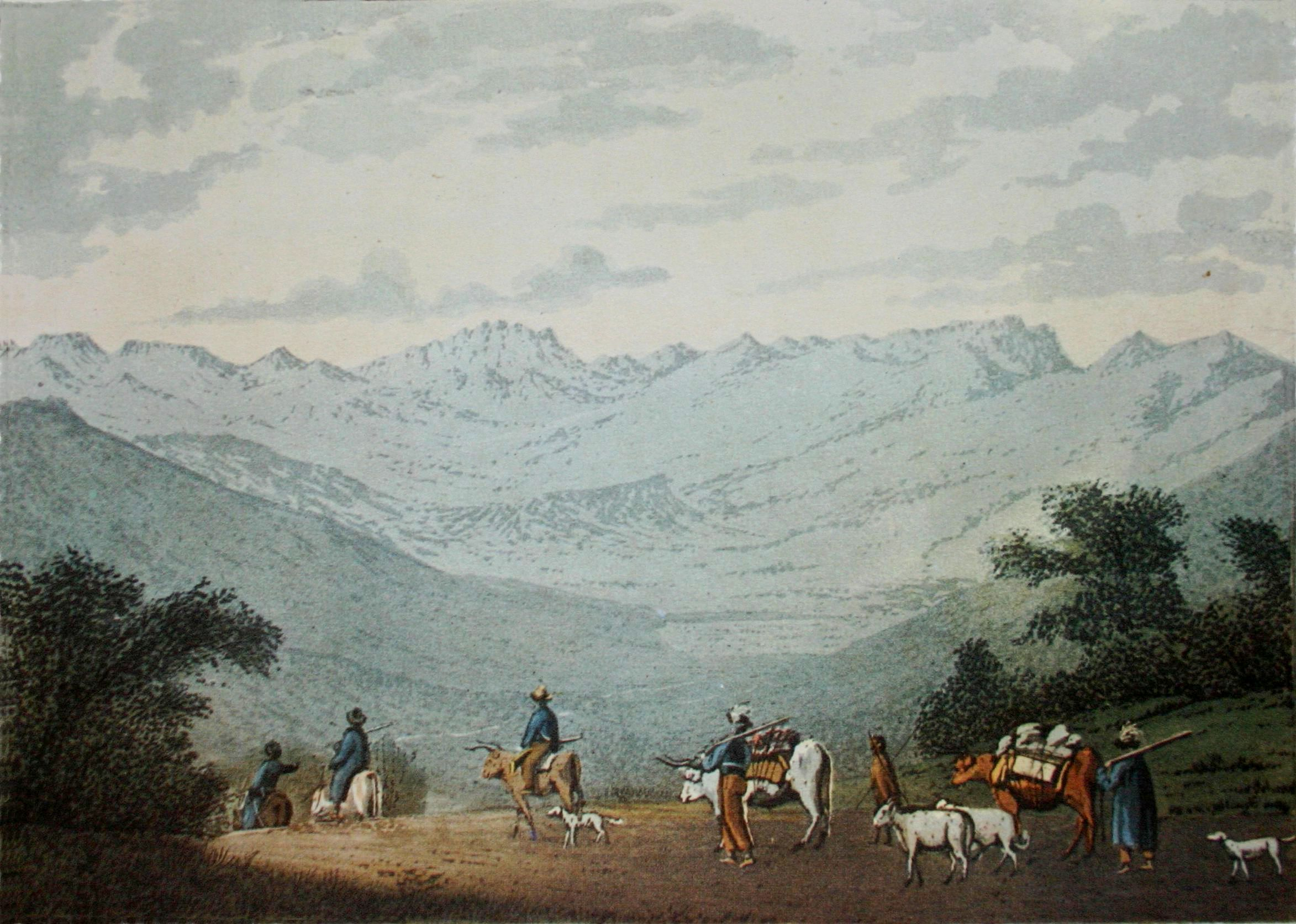 'Descending from the Snow Mountains', "Travels in the Interior of Southern Africa" - Sneeuberge between Middelburg and Graaff-Reinet, South Africa (31 45S, 25E)